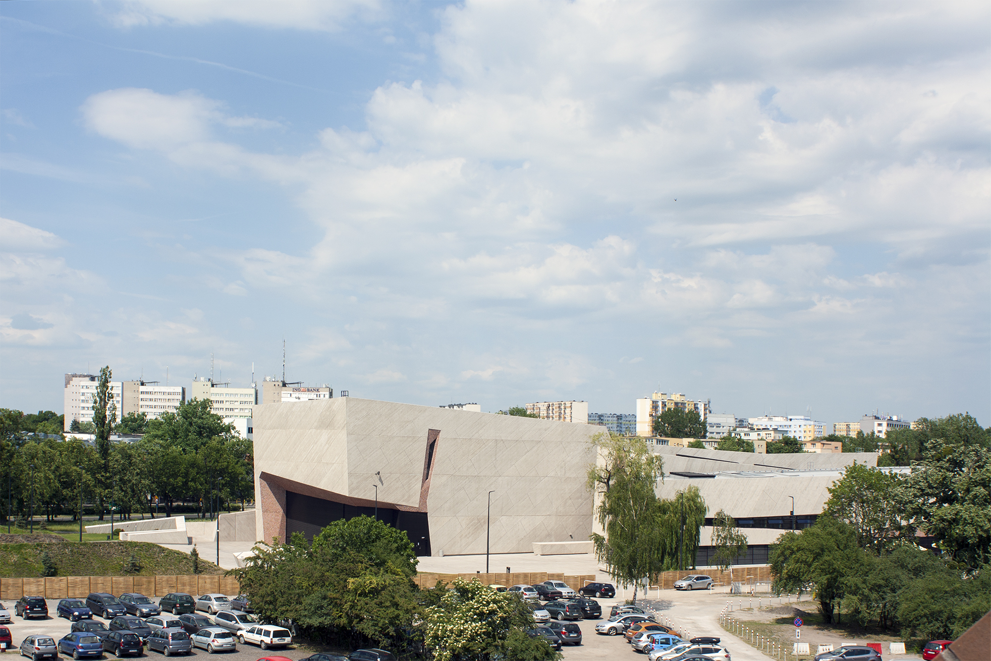 Conference and Cultural Centre "Jordanki" in Toruń